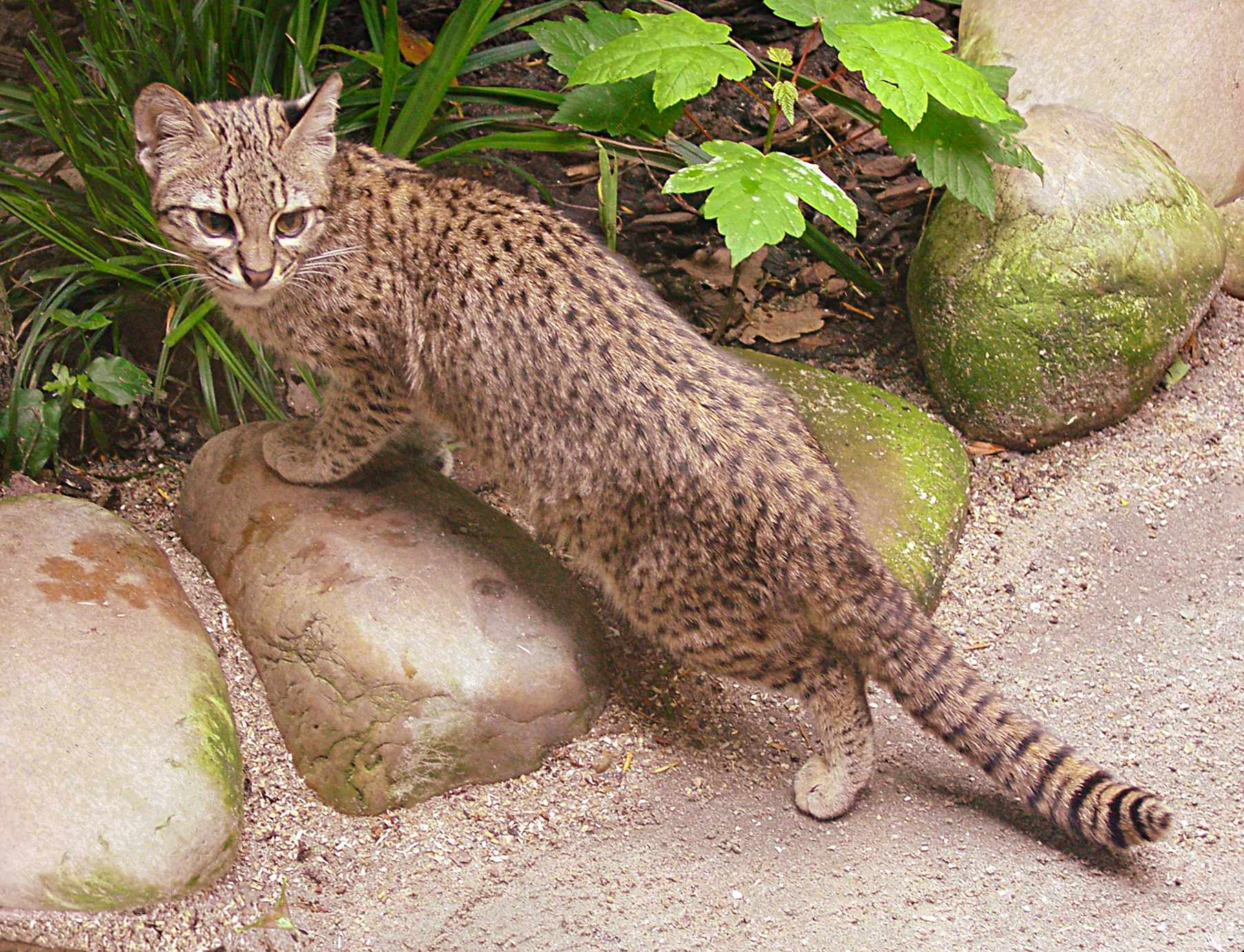 Leopardus geoffroyi (Geoffroy's Cat), Zoo Karlsruhe, Germany